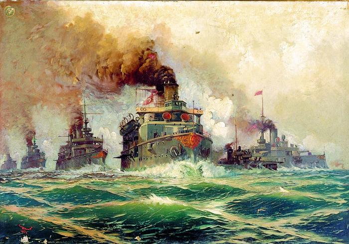 Türk Donanması Manevra Sırasında (Turkish fleet during exercise) 88 x 129 cm.